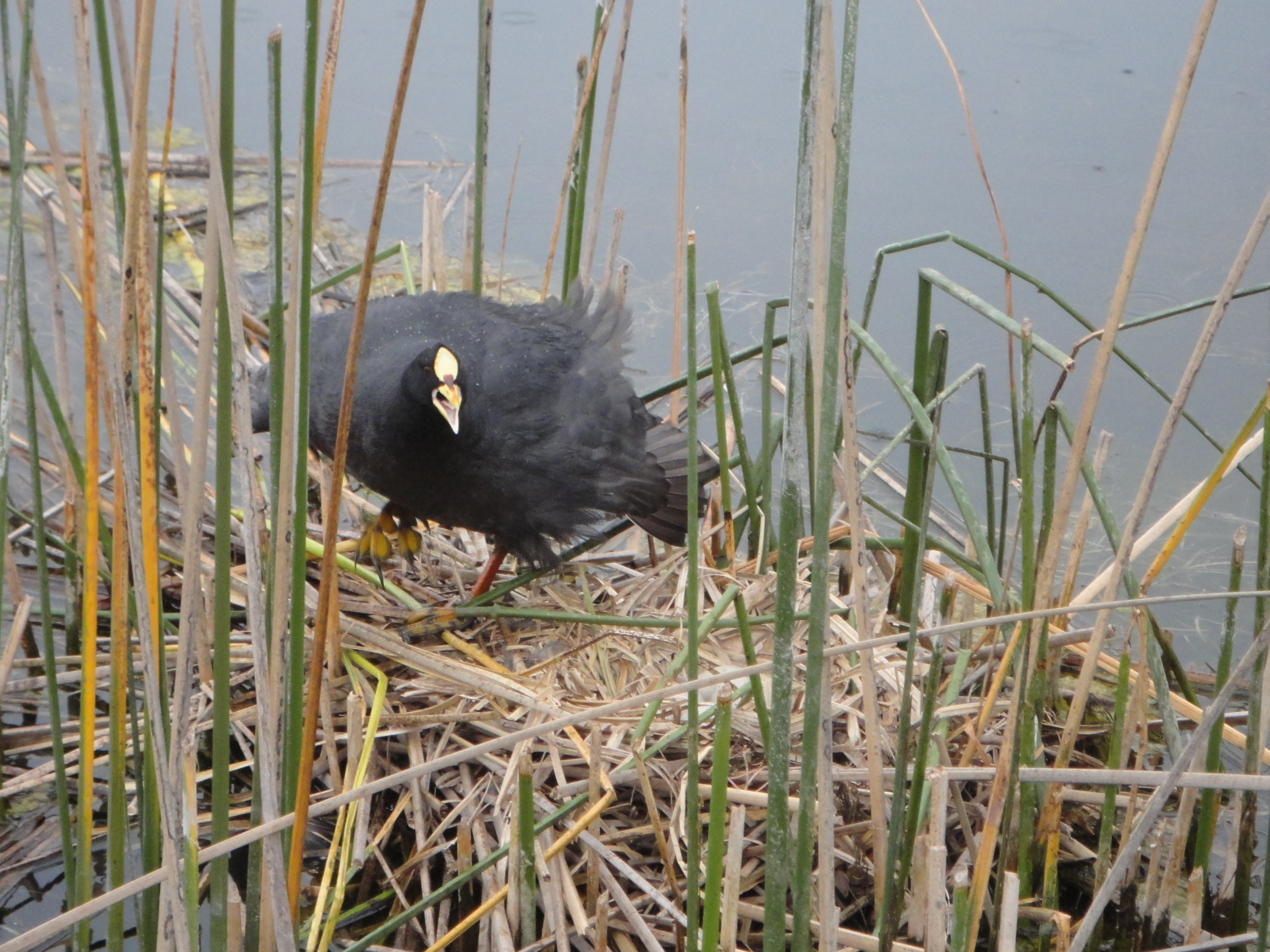 Red-gartered Coot (Fulica armillata) defending the nest